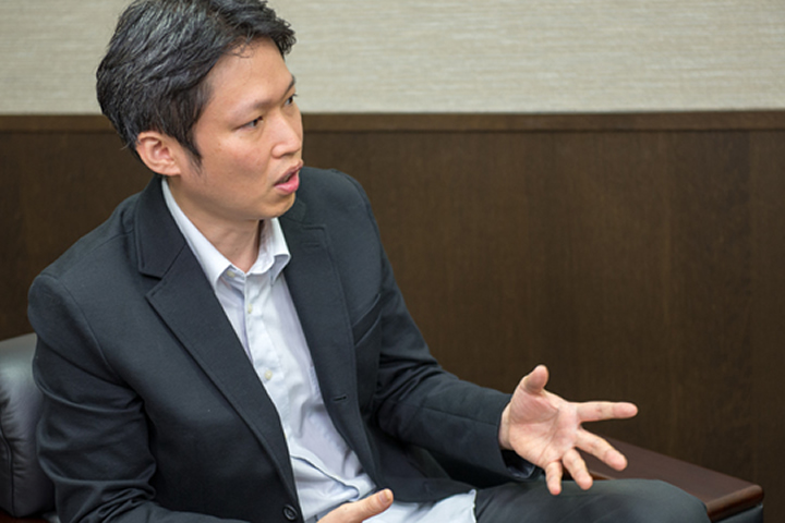 Tomoaki Watanabe was the Executive Research Fellow of the Center for Global Communications, International University of Japan.